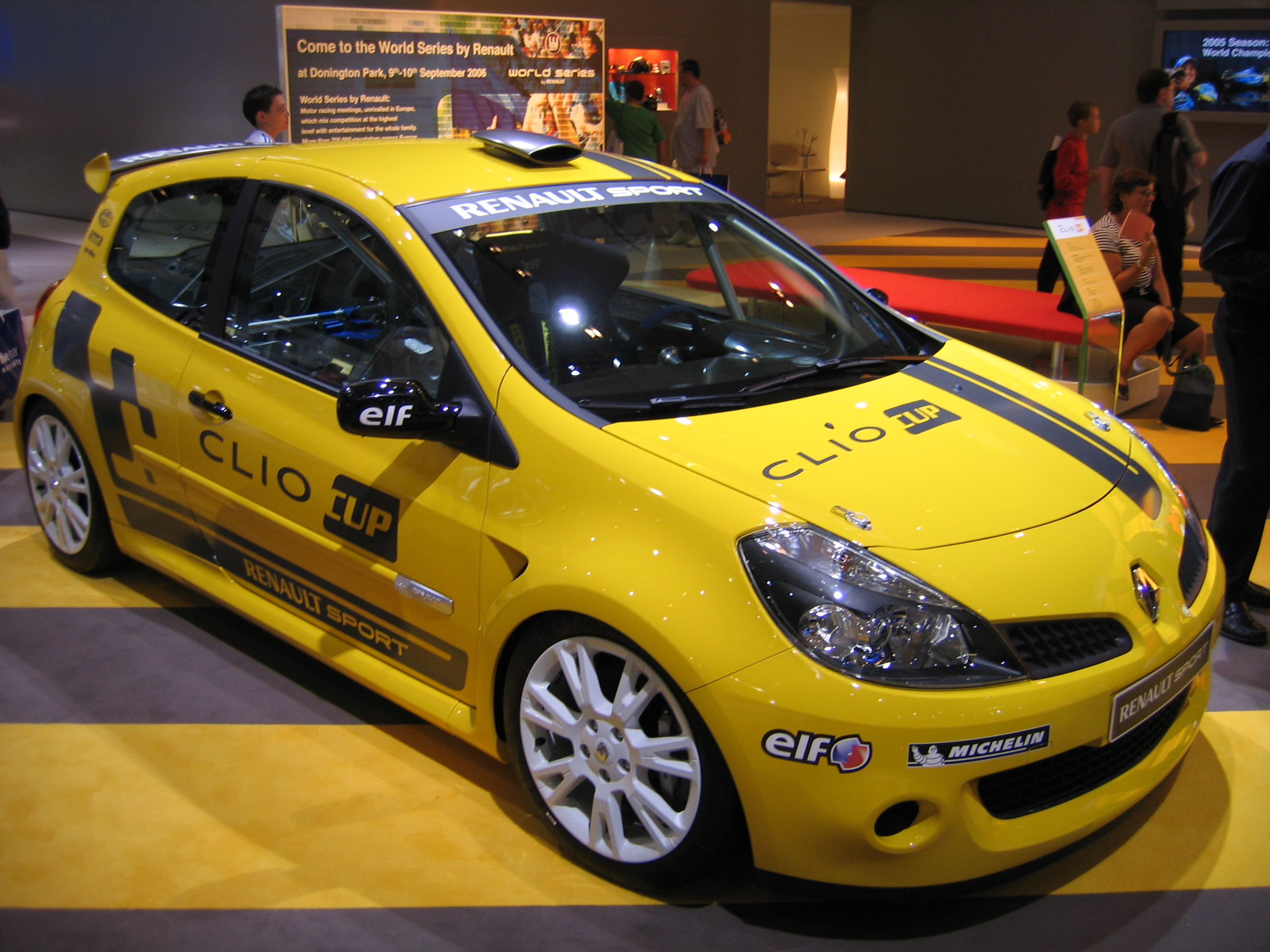 Renault Clio by Renault Sport for the Renault Clio cup